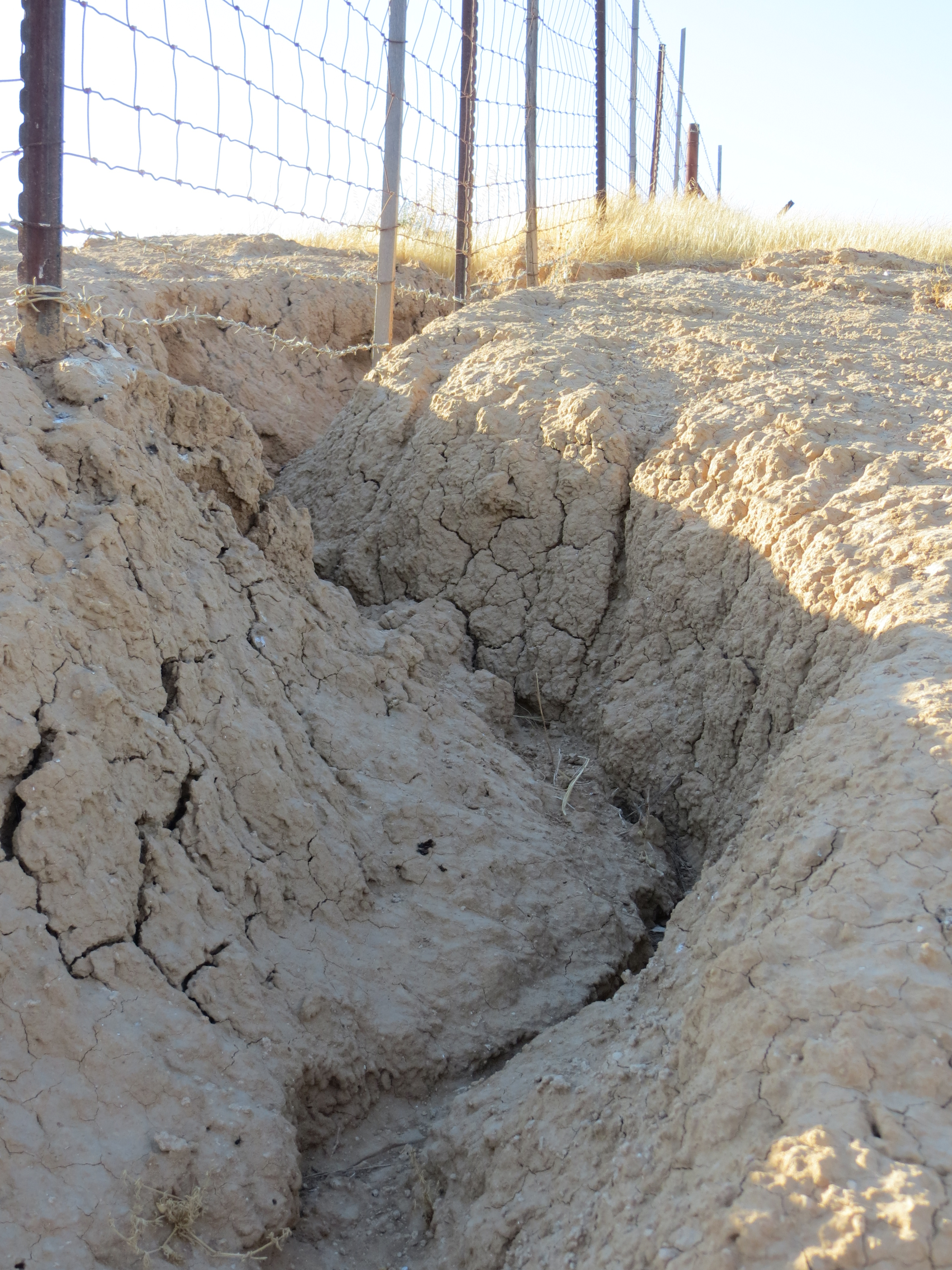 gully, northern Negev, Israel.